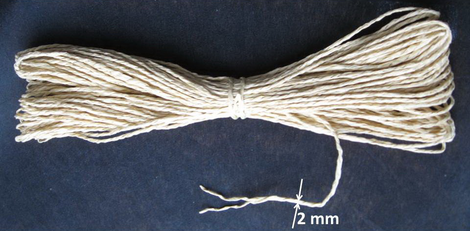 Paper string